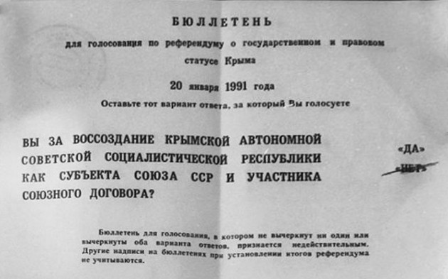 A ballot paper for the Crimean sovereignty referendum.